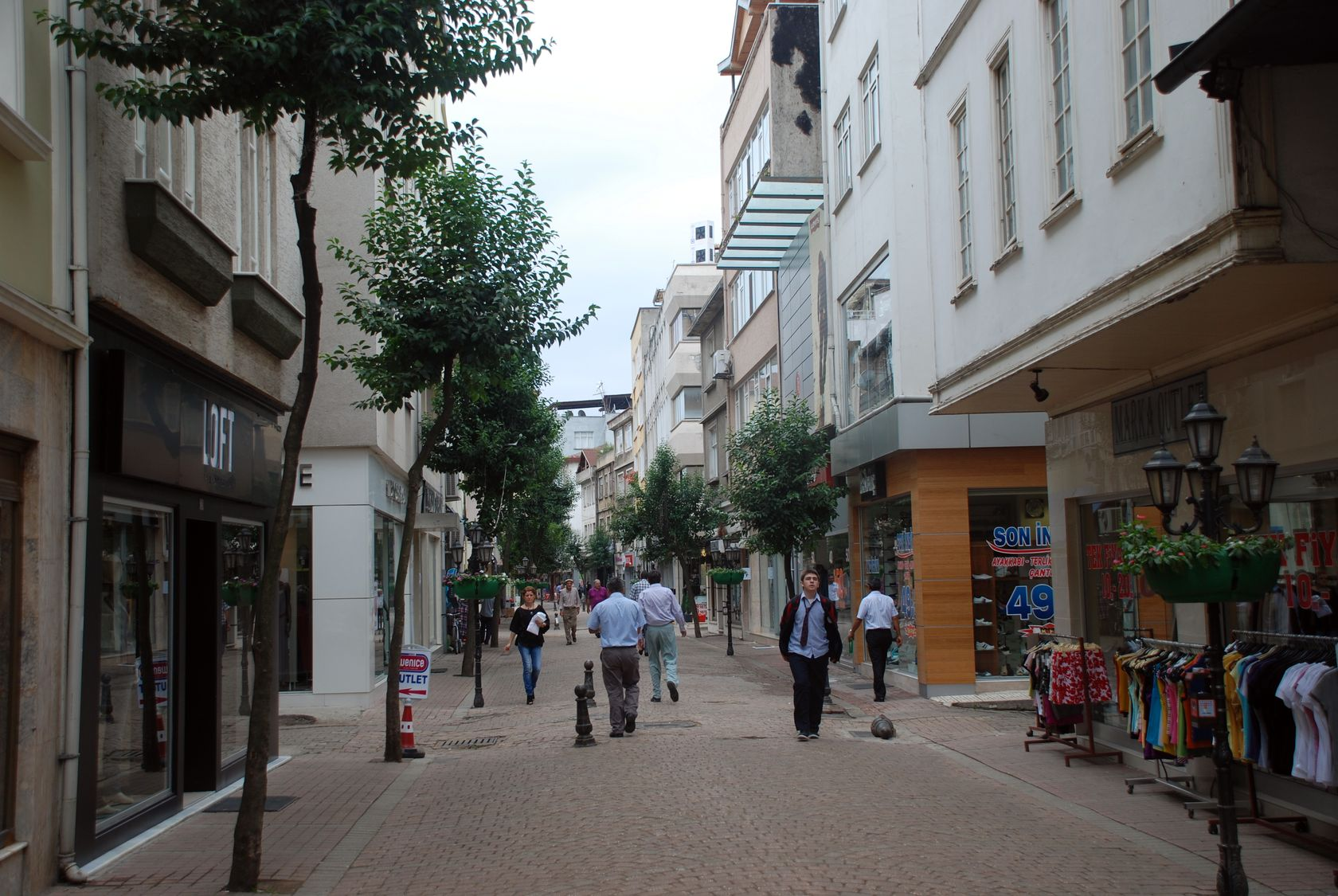 Ordu, Turkey, center